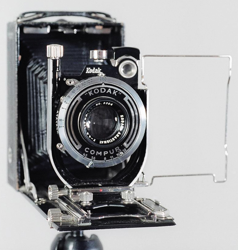 This is my Recomar 18, a beautiful little 1930s folding plate camera from Germany. It's a very well-designed and beautifully built instrument from the hand of renowned camera designer Dr Auguste Nagel, whose Nagel Kamera Werk in Stuttgart was bought by Kodak in 1932. It has a 105 mm f/4.5 Kodak Anastigmat lens set in a Compur shutter with speeds from 1 - 1/250 sec., plus T and B. The Recomar 18 was originally designed to expose 6.5 x 9 cm glass plate negatives, but sheet film holders are available as well. I shoot J and C Classic 200 in 6.5 x 9 cm sheets in this camera. There is also a larger model called the Recomar 33, which exposes 9 x 12 cm negatives. One can think of the Recomar as a tiny news camera with its wireframe viewfinder, or a miniature view camera with its ground glass focuser, sheet film and rise and shift on the front lens standard.